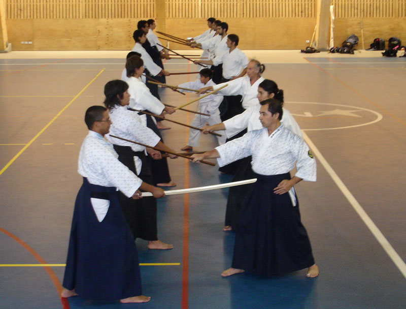 Niten Institute Seminar on Chile - Sassen, first Kata of Niten Ichi Ryu